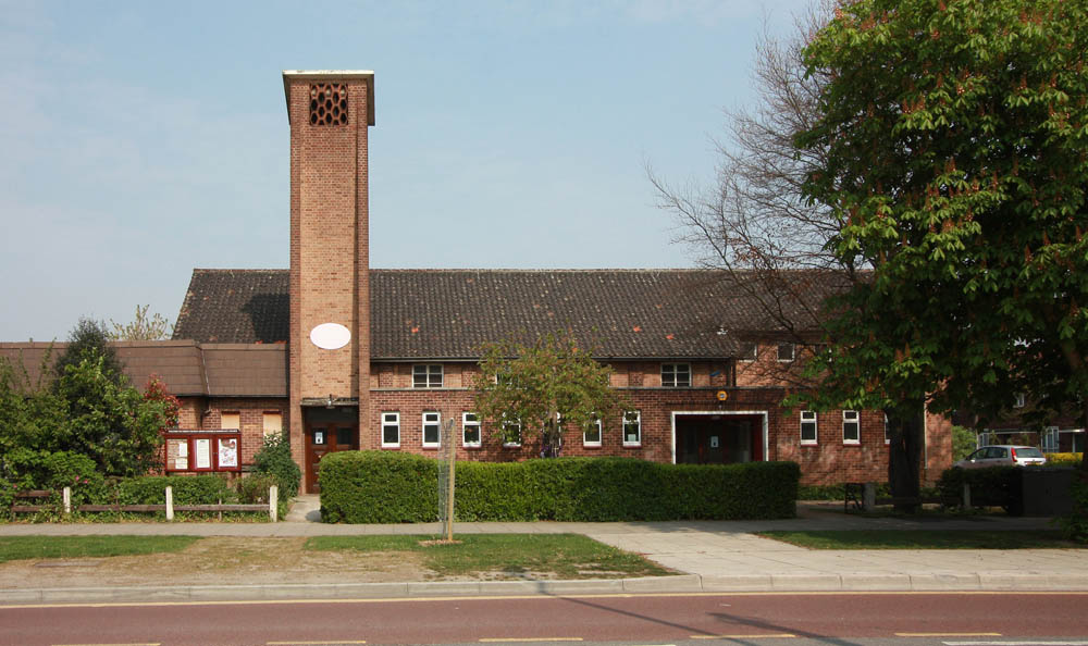 Christ Church, Bastable Avenue, Barking, London, seen from the south